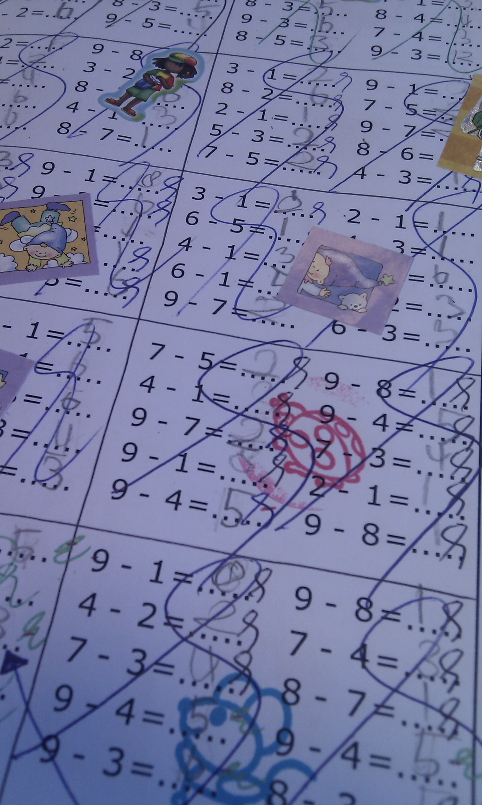 Photo taken in my own classroom. I am a teacher at an elementary school in the Netherlands.